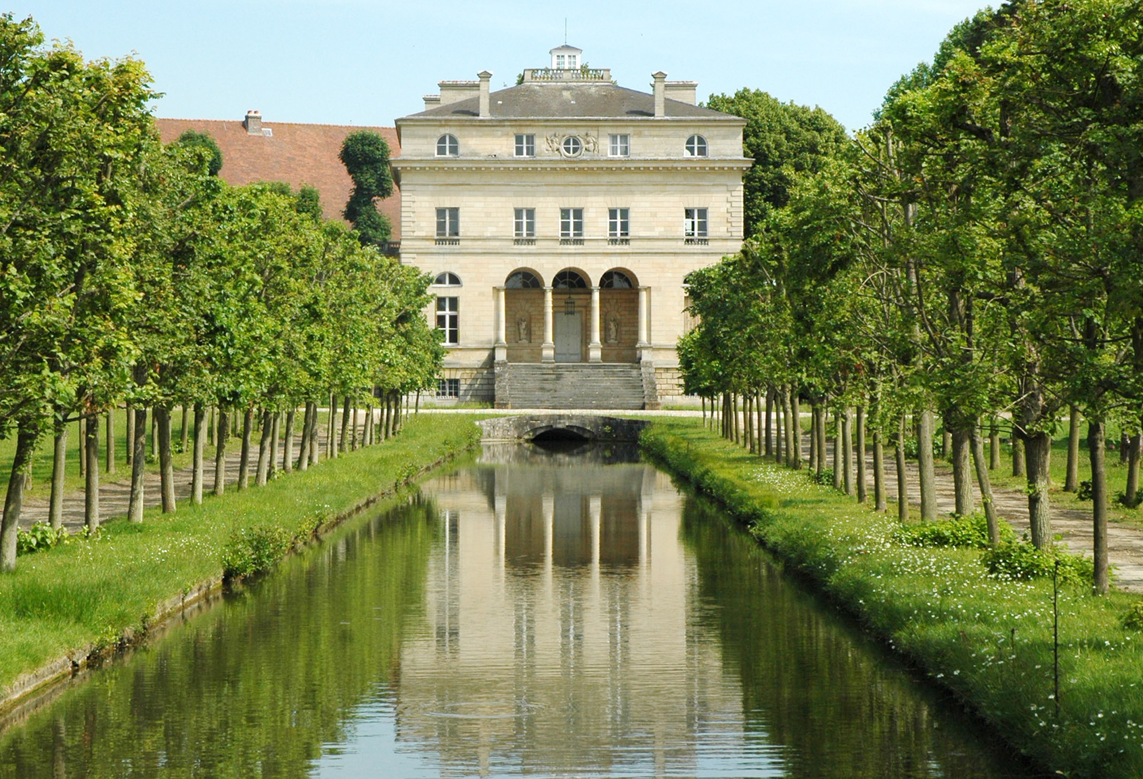 Royaumont